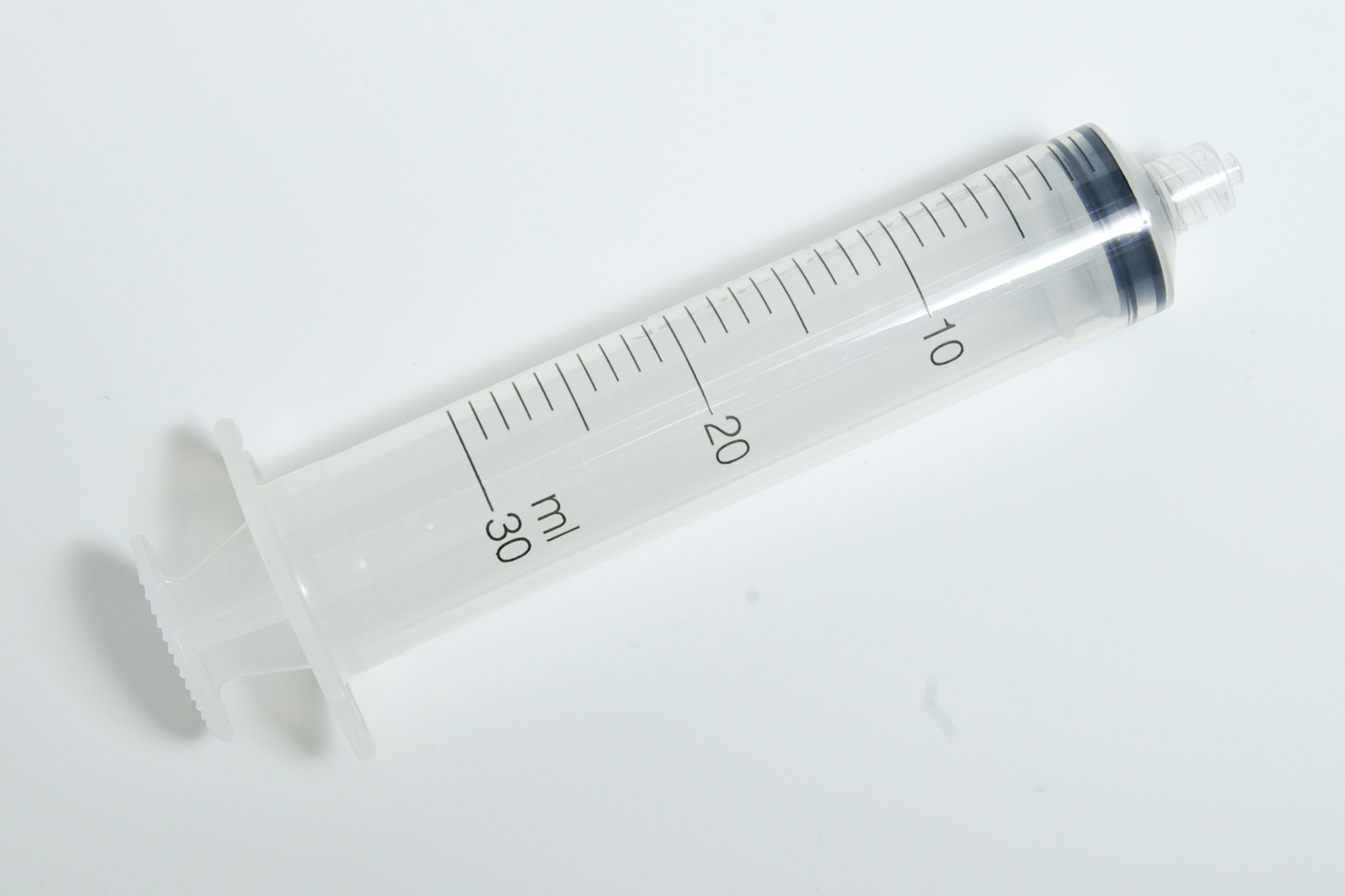 30ml disposable syringe